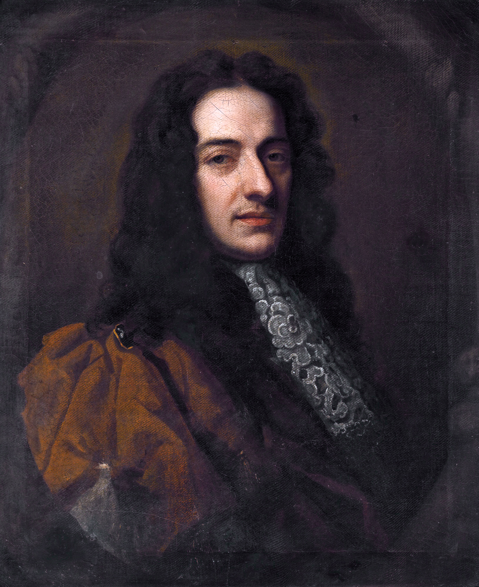 Nicola Matteis (c.1640-1714) oil on canvas 76 x 65 cm inscribed verso: Nicholas Matteis / G. Kneller F / 1682